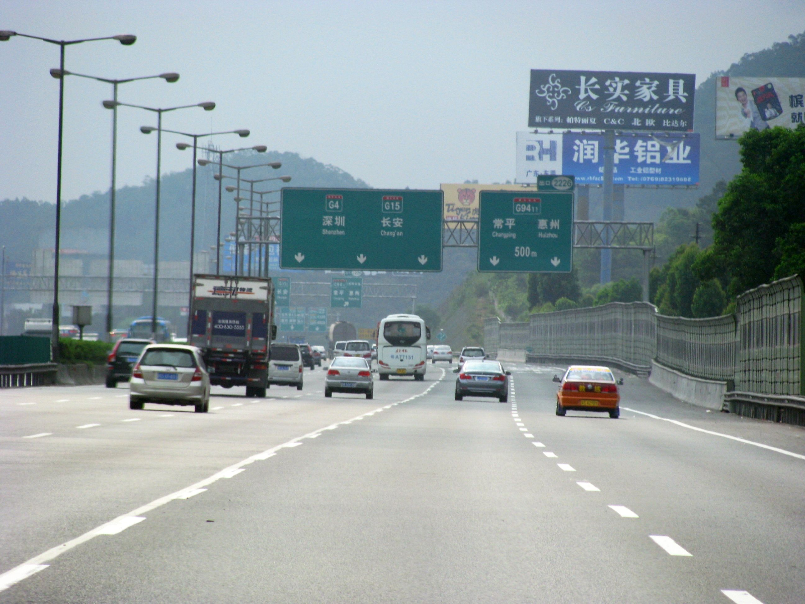 The G4 Beijing–Hong Kong–Macau Expressway in China.